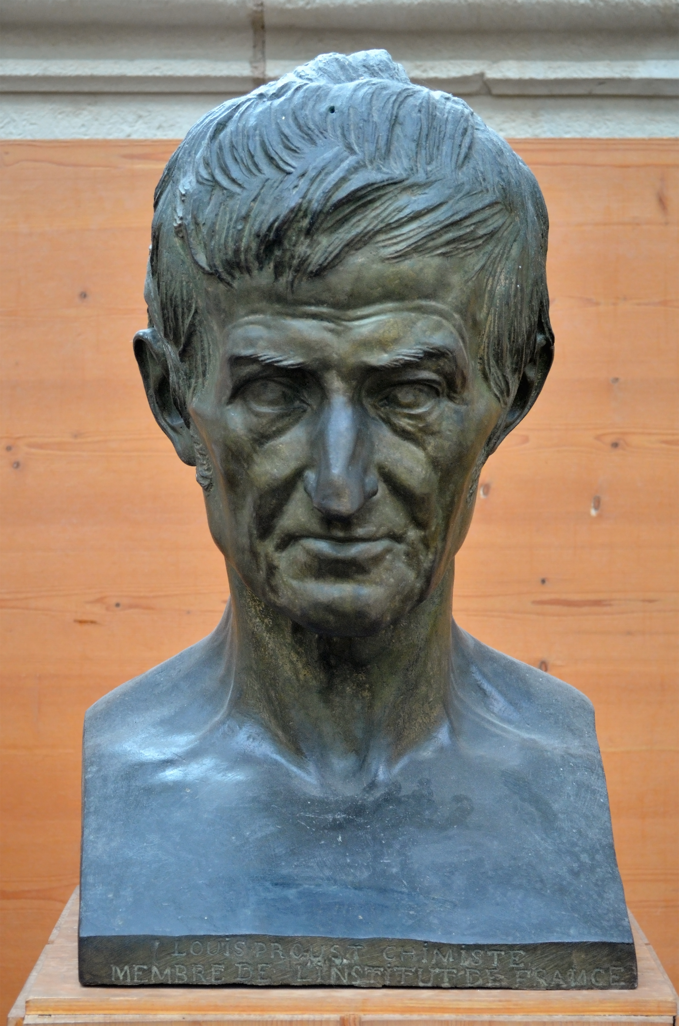 Bust of Joseph Proust by french sculptor David d'Angers (1831). Exhibited in David d'Angers gallery, Angers, France